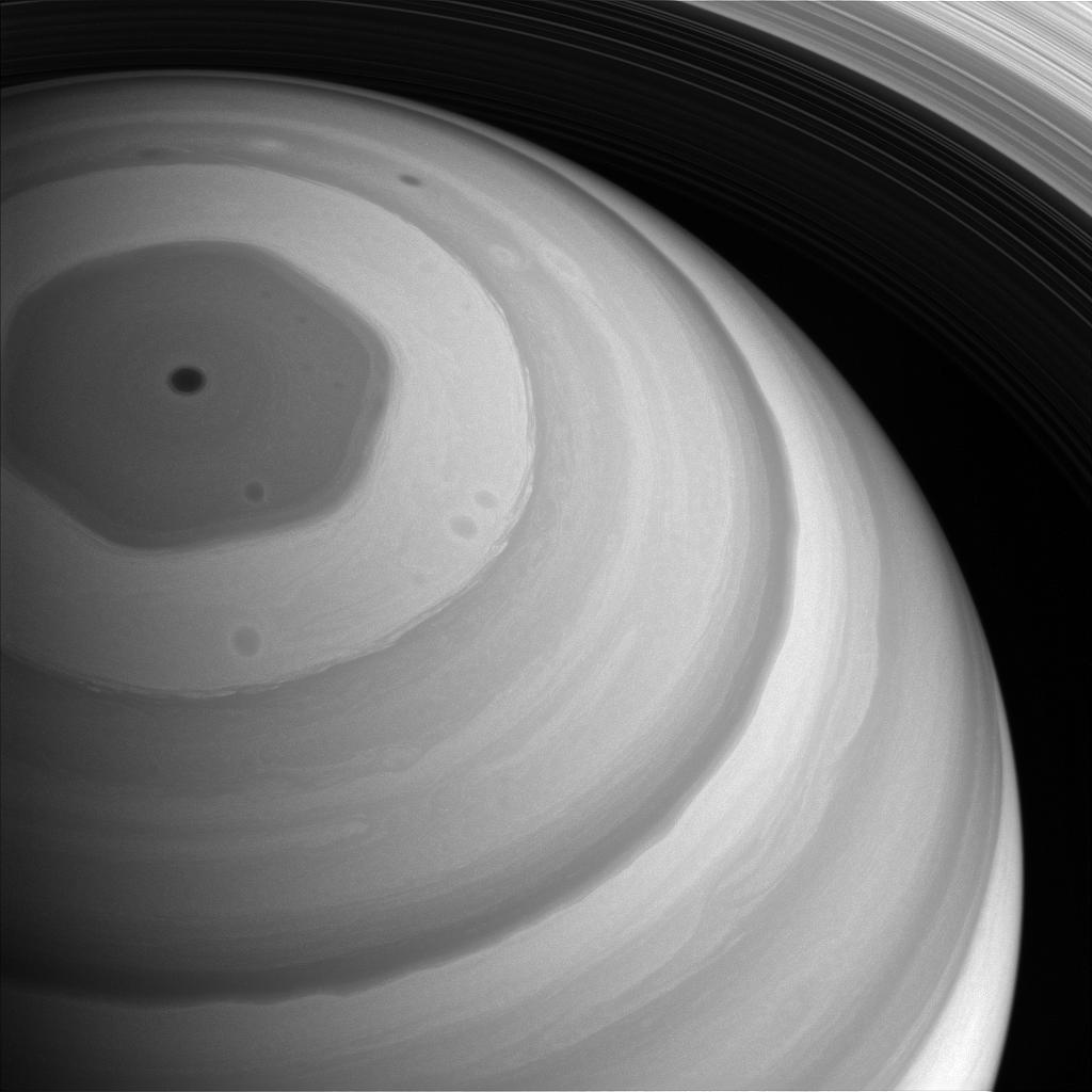 Sunlight truly has come to Saturn's north pole. The whole northern region is bathed in sunlight in this view from late 2016, feeble though the light may be at Saturn's distant domain in the solar system. The hexagon-shaped jet-stream is fully illuminated here. In this image, the planet appears darker in regions where the cloud deck is lower, such the region interior to the hexagon. Mission experts on Saturn's atmosphere are taking advantage of the season and Cassini's favorable viewing geometry to study this and other weather patterns as Saturn's northern hemisphere approaches Summer solstice. This view looks toward the sunlit side of the rings from about 51 degrees above the ring plane. The image was taken with the Cassini spacecraft wide-angle camera on Sept. 9, 2016 using a spectral filter which preferentially admits wavelengths of near-infrared light centered at 728 nanometers. The view was obtained at a distance of approximately 750,000 miles (1.2 million kilometers) from Saturn. Image scale is 46 miles (74 kilometers) per pixel. The Cassini mission is a cooperative project of NASA, ESA (the European Space Agency) and the Italian Space Agency. The Jet Propulsion Laboratory, a division of the California Institute of Technology in Pasadena, manages the mission for NASA's Science Mission Directorate, Washington. The Cassini orbiter and its two onboard cameras were designed, developed and assembled at JPL. The imaging operations center is based at the Space Science Institute in Boulder, Colorado. For more information about the Cassini-Huygens mission visit and The Cassini imaging team homepage is at